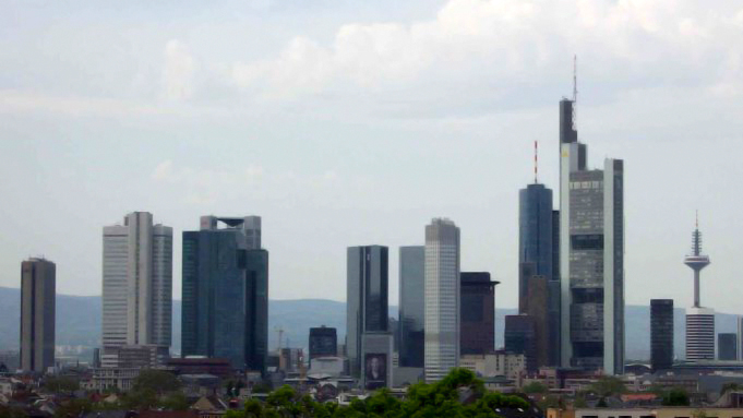 Skyline of